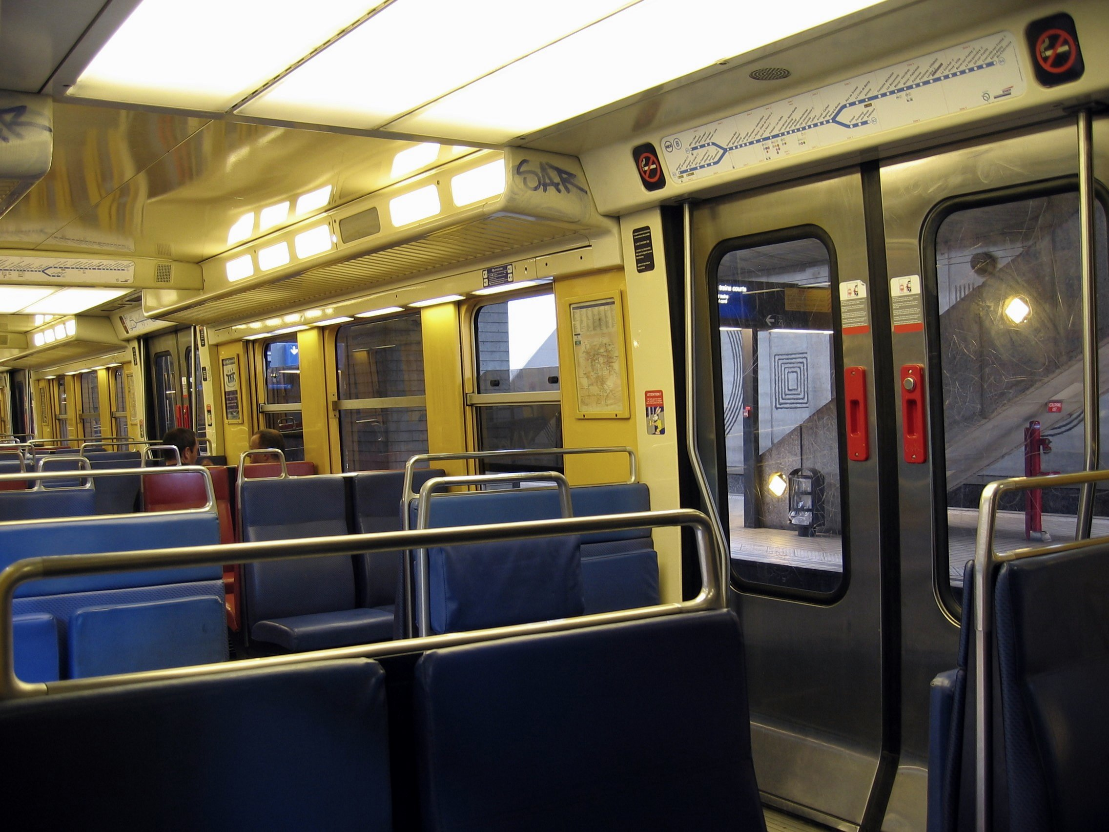 Interior of RER B at Roissy-Charles de Gaulle